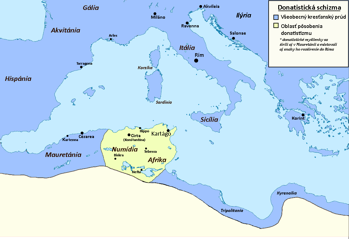 Donatist schism in 4th and 5th century by Atlas of Christian History (Tim Dowley, p. 20 a 21) a The Palgrave Atlas of Byzantine History (John Haldon, p. 49)